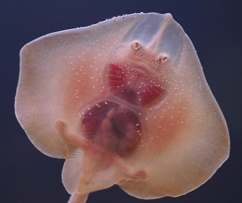 Ocellate spot skate (Okamejei kenojei)